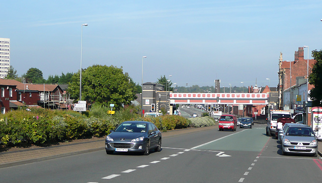 Lichfield Road (A5127) in Aston, Birmingham Aston Station is behind the trees to the left of the railway bridge.